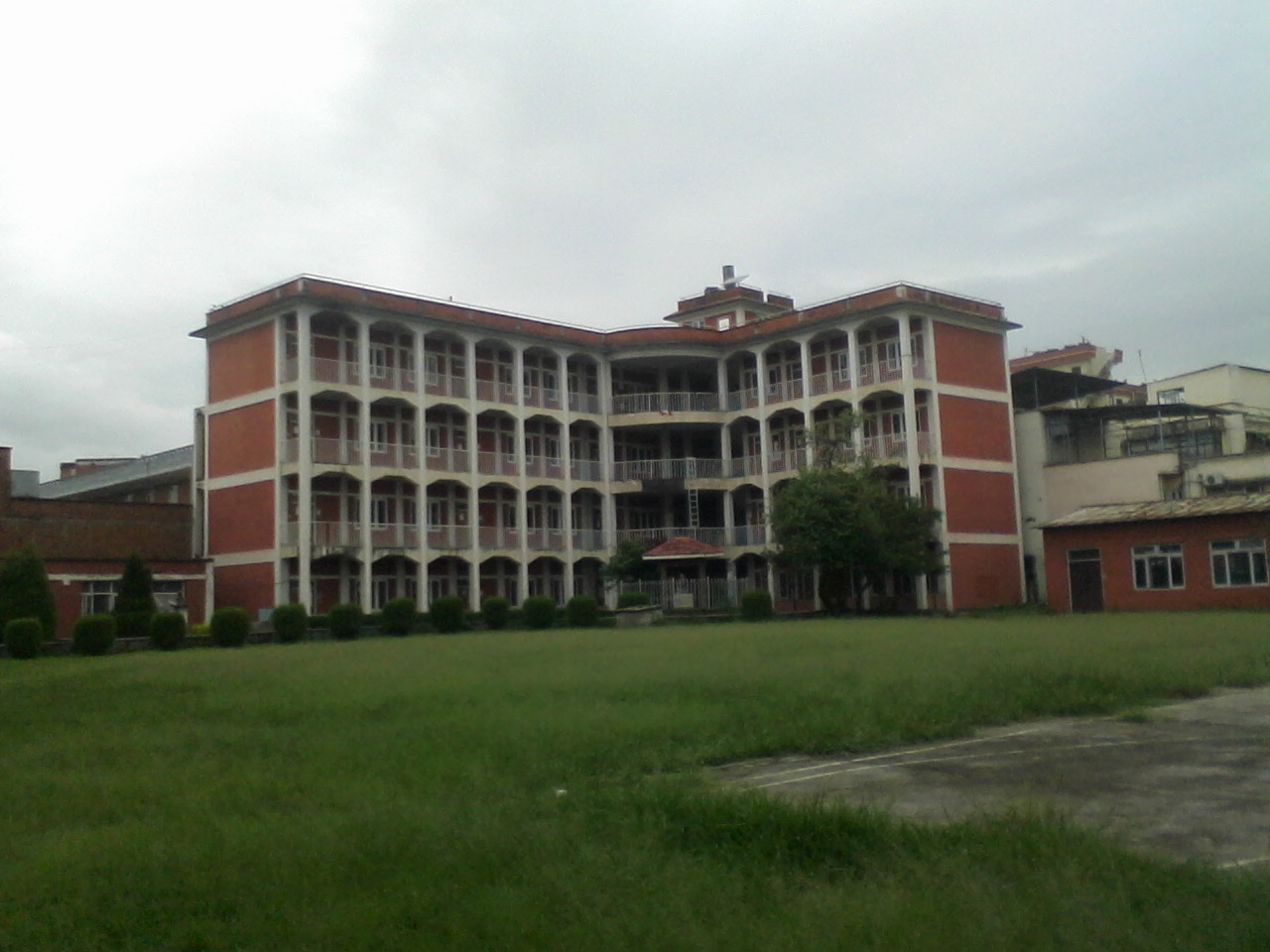 पद्मकन्या कलेजको मैत्री भवन